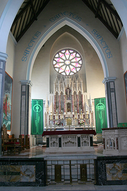 St Peter's Church Sometimes, and inaccurately, referred to as a cathedral, this is the main Roman Catholic church in the parish of Rathven. St Gregory's at Preshome and St Ninian's at Tynet are served from here. The church was built in 1851-7 to a design by Bishop James Kyle and Alexander and William Reid. In 1907 the chancel, altar and baptistry were altered by Charles Jean Ménart.